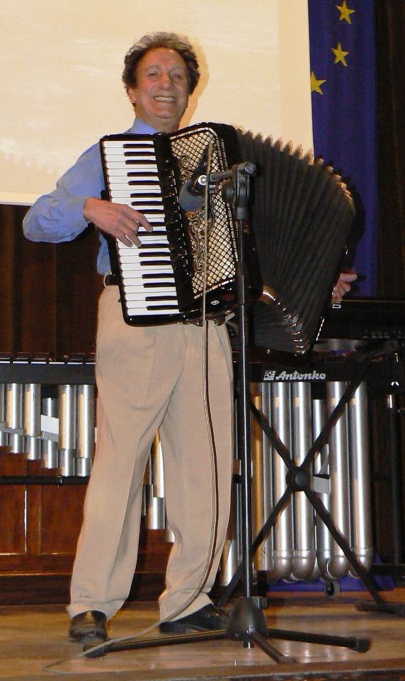 Bulgarian accordion player Ibro Lolov